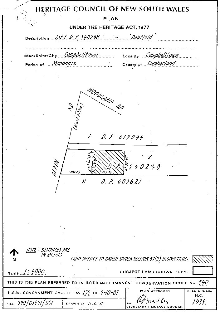 Denfield: PCO Plan Number 540